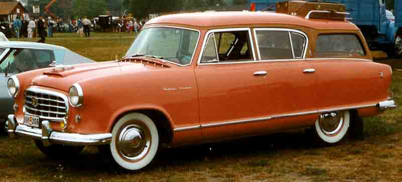 Nash Rambler Cross Country Stationwagon 1955